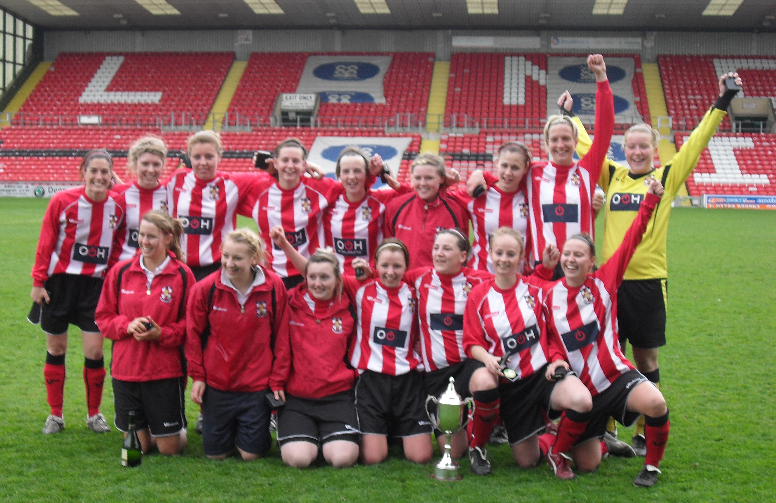 OOH Lincoln Ladies after the County Cup Final, 2 May 2010